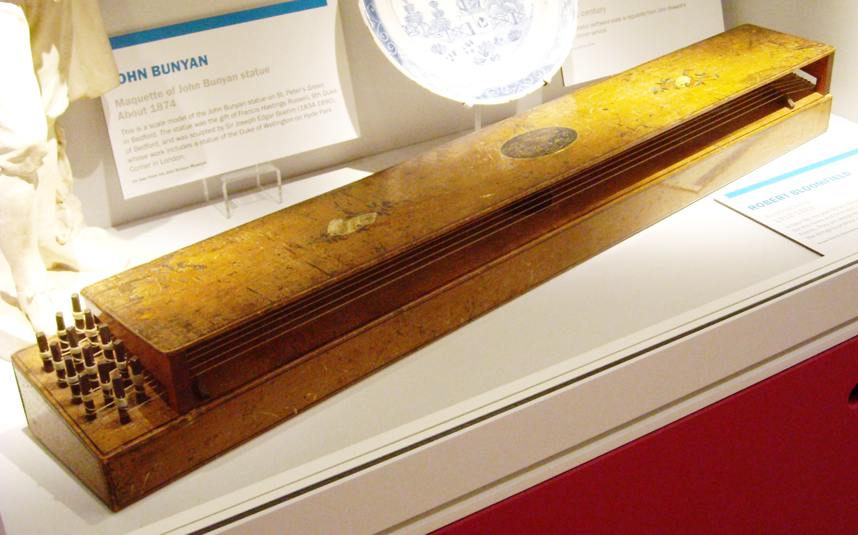 An aeolian harp, made by Robert Bloomfield between 1812 and 1823. On display in The Higgins museum and gallery, Bedford.